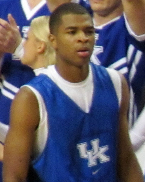 Aaron Harrison in Kentucky's 2013 Blue-White scrimmage game at Rupp Arena in Lexington, Kentucky